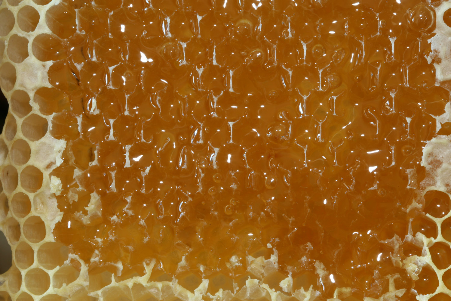 Honeycomb full of honey with uncapped cells